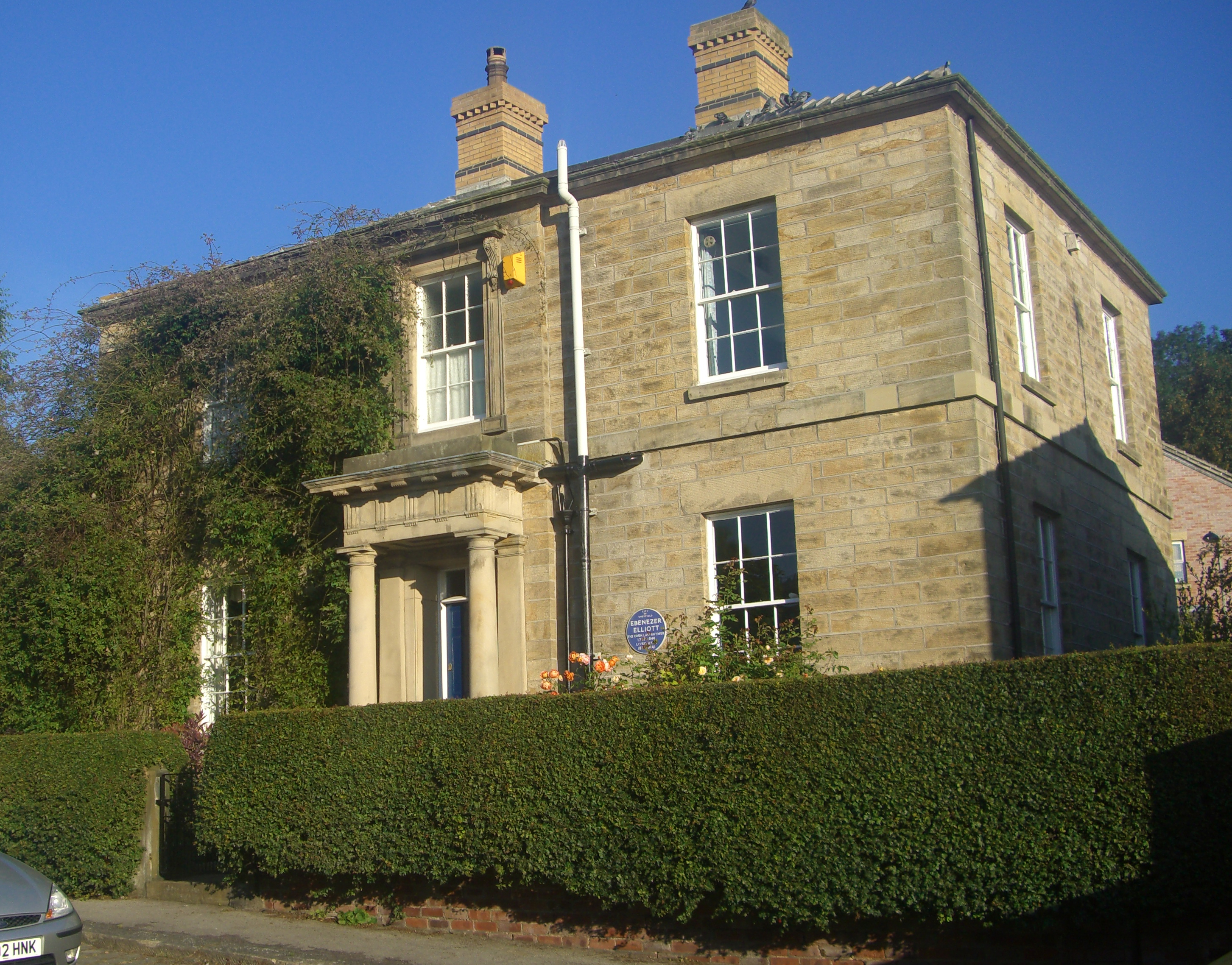 Upperthorpe Villa, a grade II listed building in Blake Grove Road, Upperthorpe, Sheffield, England.